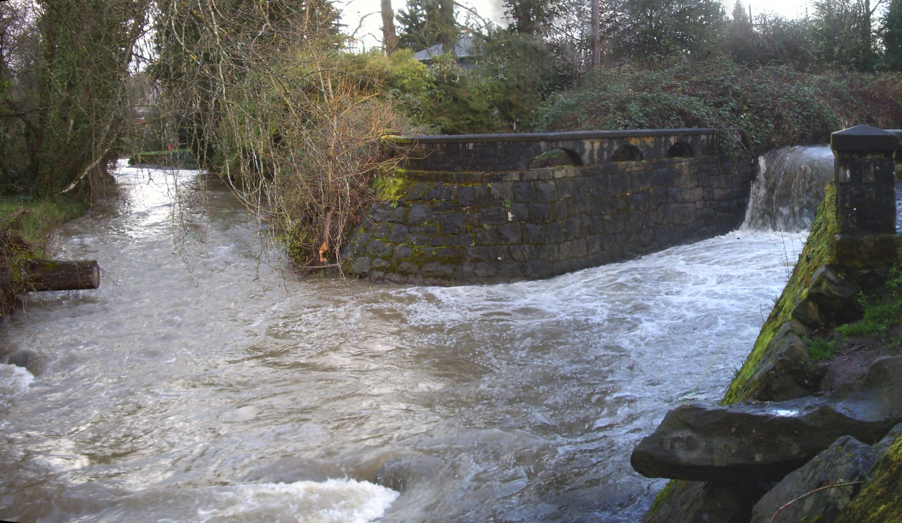 Johnson Creek almost in line with SE 42nd Street where a small island is formed by the creek branching (seen rejoining here). Also a weir is visible just off the Springwater Corridor.